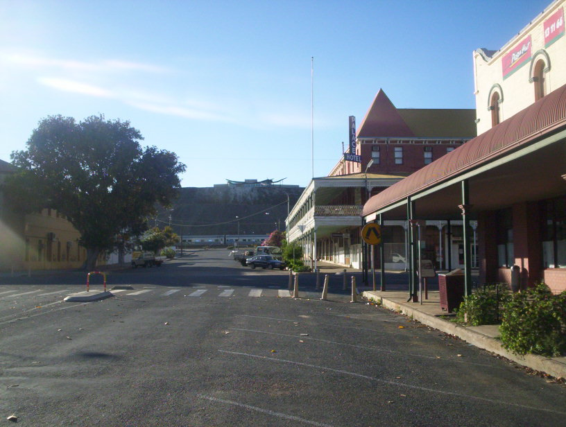 Broken Hill, New South Wales. In the background (at the end of the street) is part of the Indian Pacific train, I took the photo. Cfitzart 09:07, 29 November 2005 (UTC)